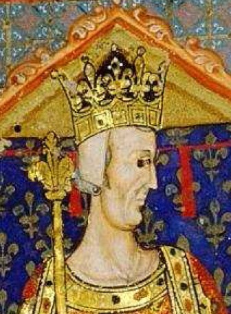 Robert of Naples